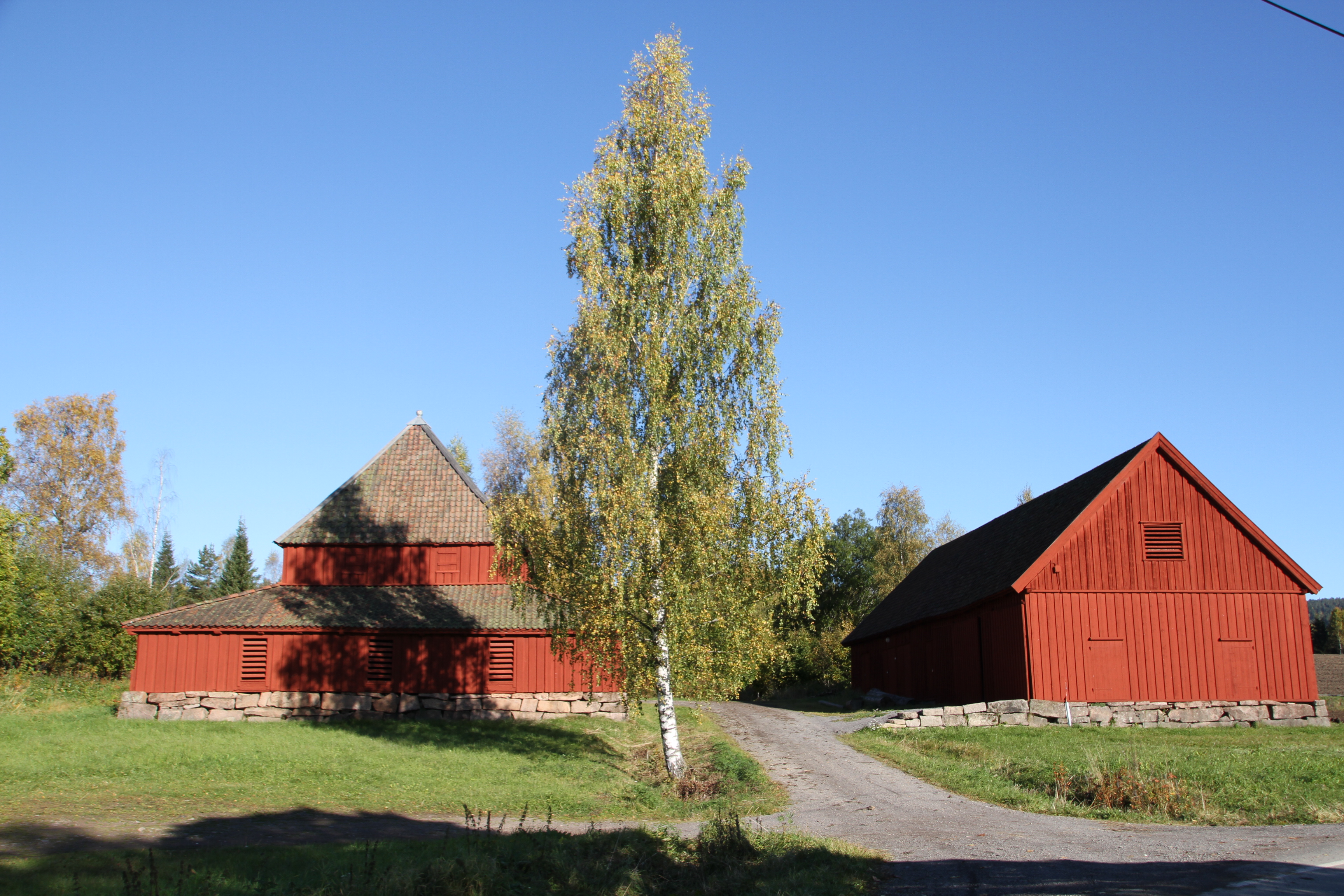 Hakadal Verk, a 17-18th century iron works in Hakadal, Nittedal municipality, Akershus (Norway). This works was connected with mines in the Oslo woods, and with Bärums Verk, partly via the Anker road.